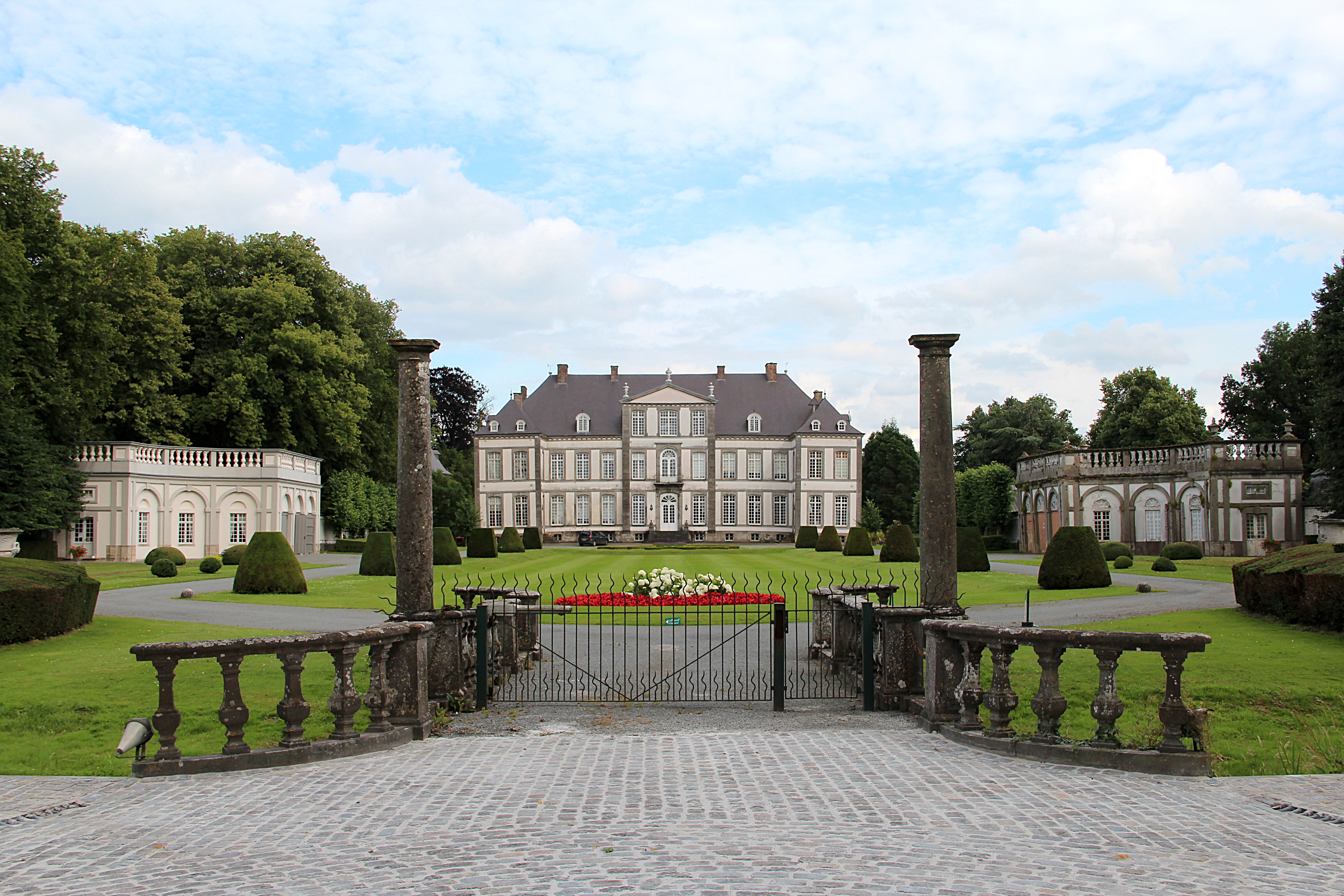 Attre (Belgium), the castle (XVIIIth century).